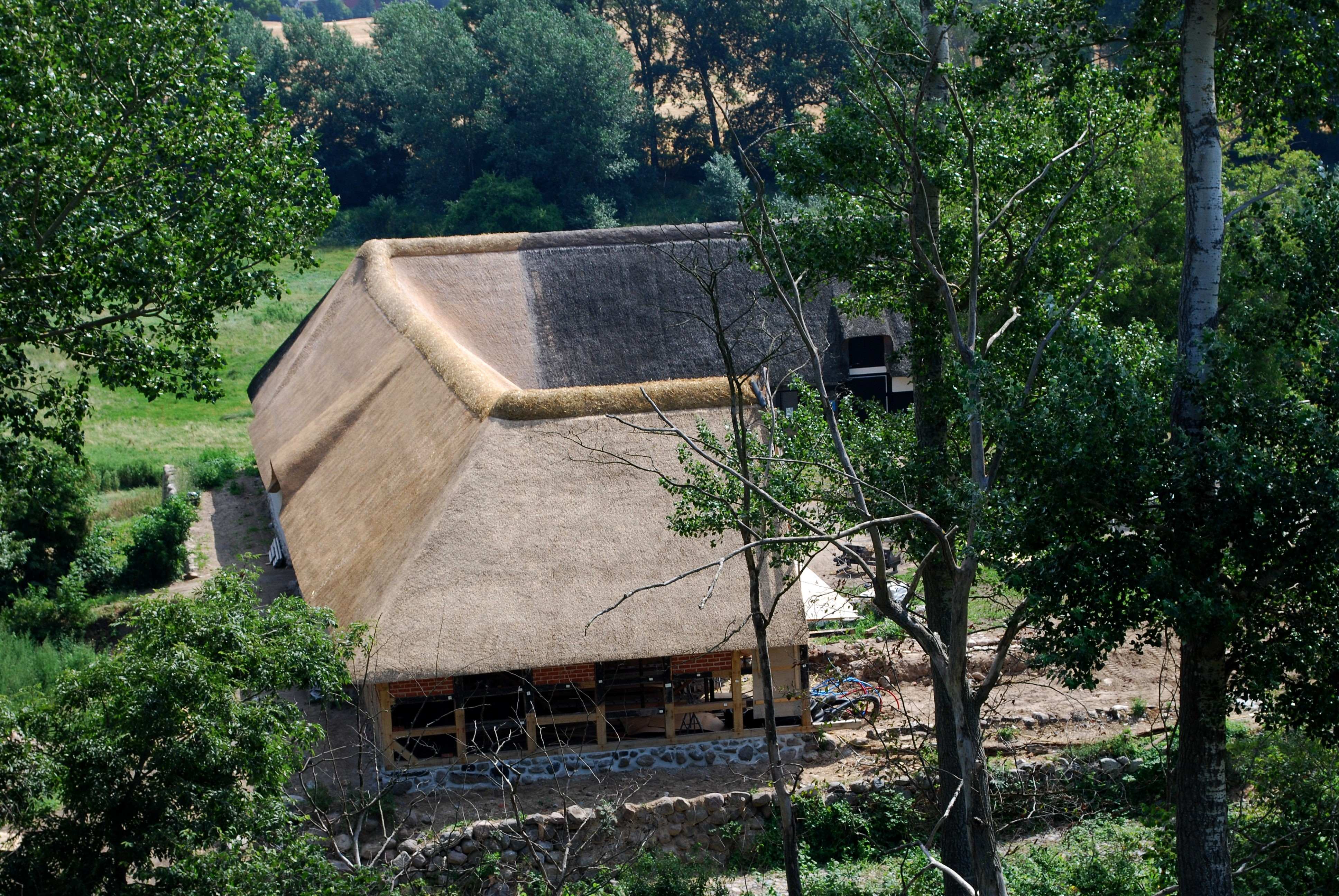 Søbygaard, Ærø, Denmark